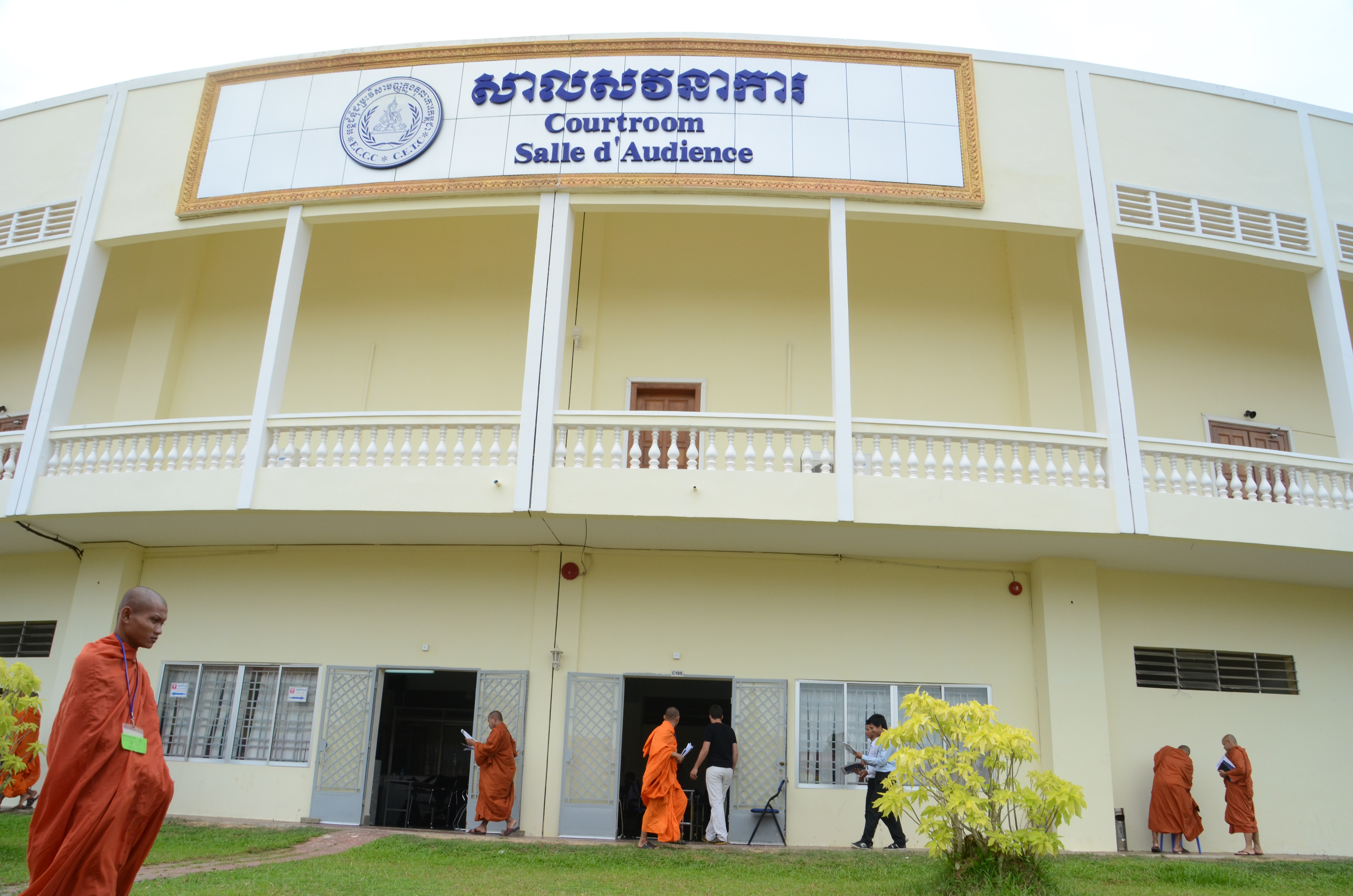 30 Aug 2011: A number of Buddhist Monks from Preah Sihanouk Raja Buddhist University attended the second the of the preliminary hearings on Nuon Chea's and Ieng Thirith's fitness to stand trial. ... ថ្ងៃទី៣០ ខែសីហា ឆ្នាំ២០១១: ព្រះសង្ឃមកពីសាកលវិទ្យាល័យព្រះសីហនុរាជ ចូលរួមស្តាប់សវនាការនៅថ្ងៃទី២ នៃសវនាការលើកាយសម្បទារបស់លោក នួន ជា និងលោកស្រី អៀង ធីរិទ្ធ នៅចំពោះមុខអង្គជំនុំជម្រះសាលាដំបូង។